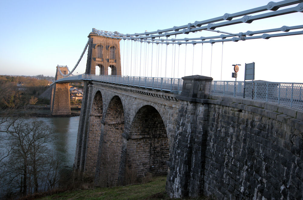 The Menai Suspension Bridge, by Thomas Telford, the renowned Engineer, work started in 1819, and was completed in 1826.